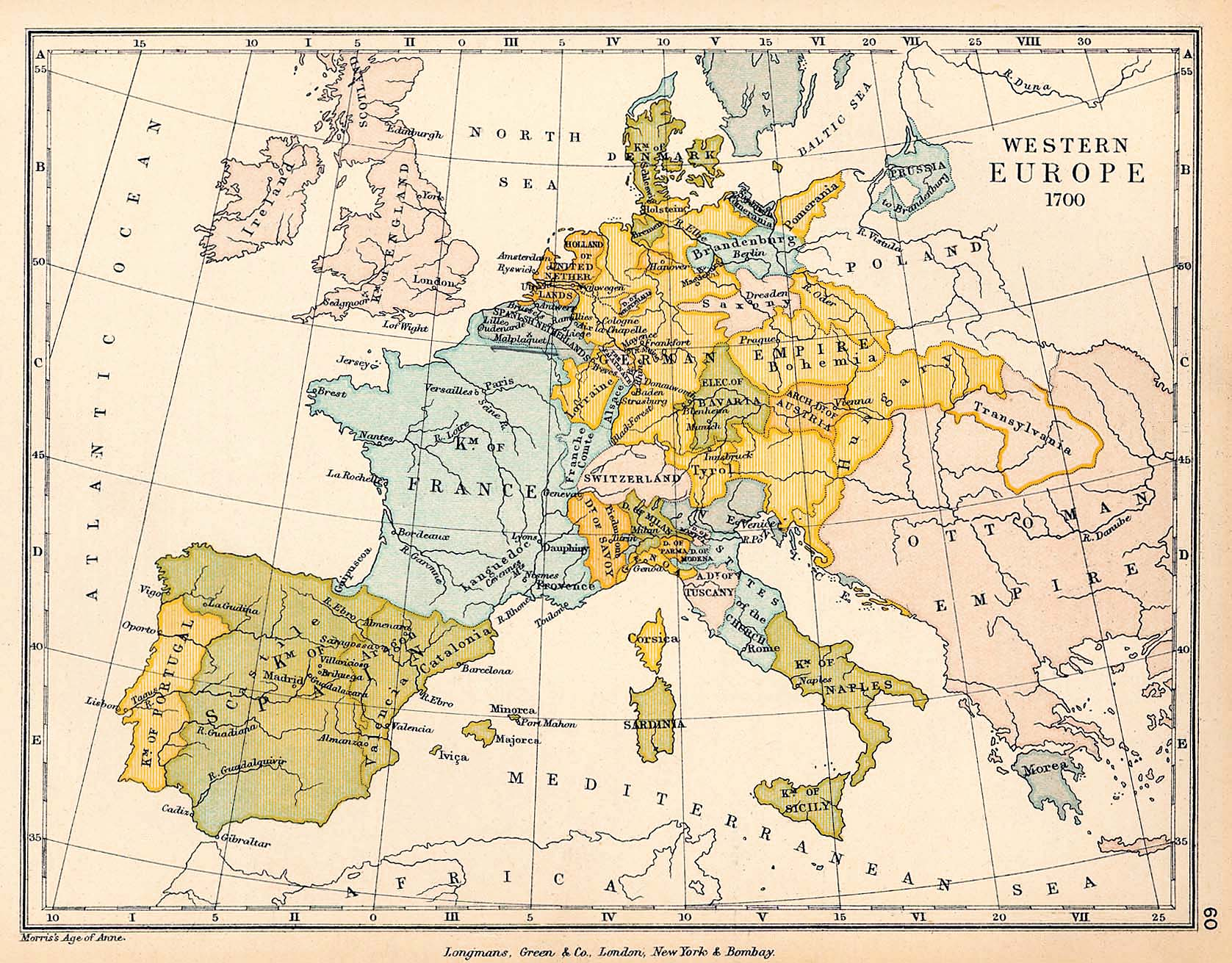 Western Europe in year 1700 "Courtesy of the University of Texas Libraries, The University of Texas at Austin." Quote: "No permissions are needed to copy them. You may download them and use them as you wish."